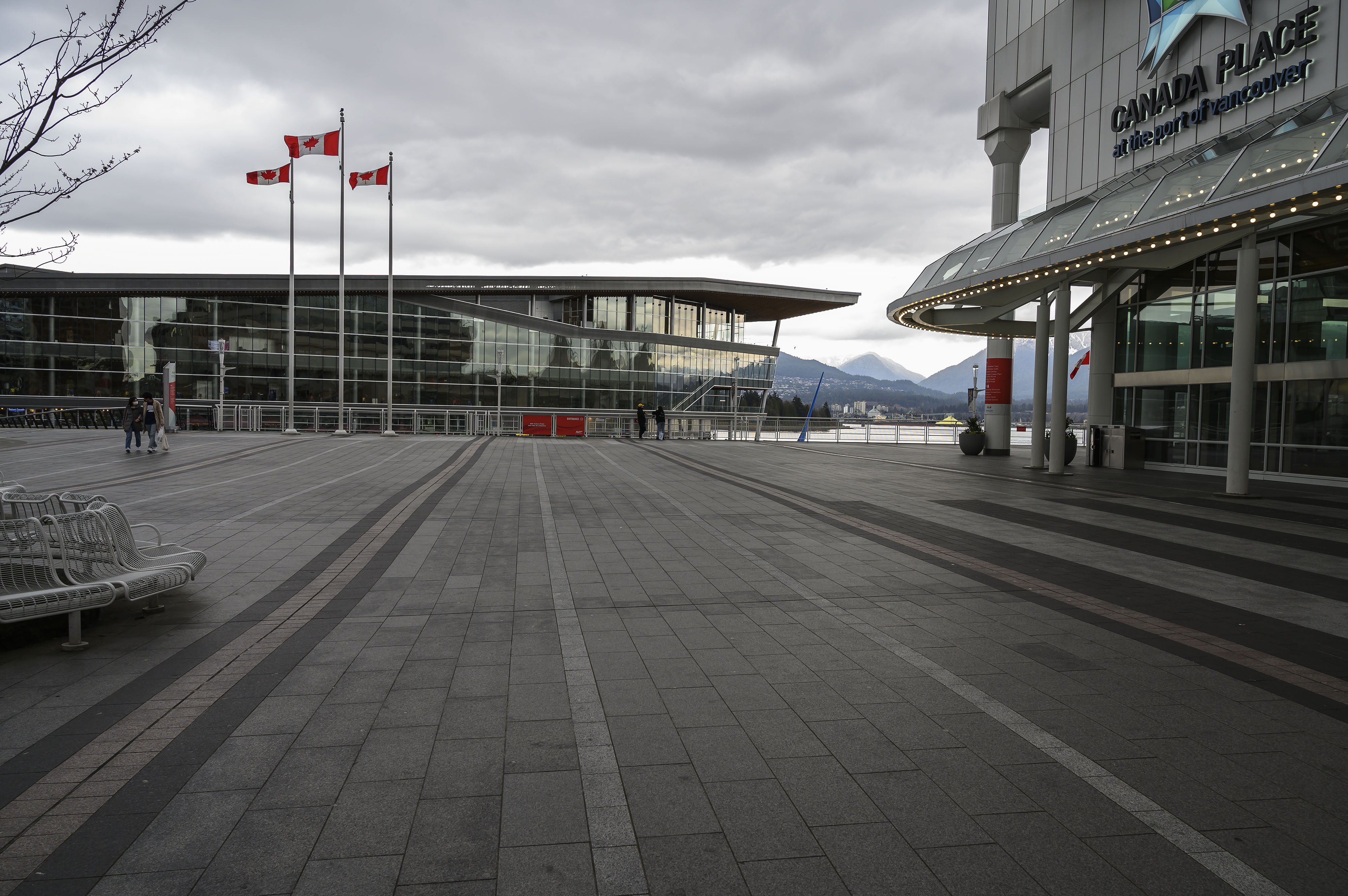 April 2nd, 2020. COVID-19 is a global pandemic, social distancing is in effect, and downtown Vancouver is nearly empty.